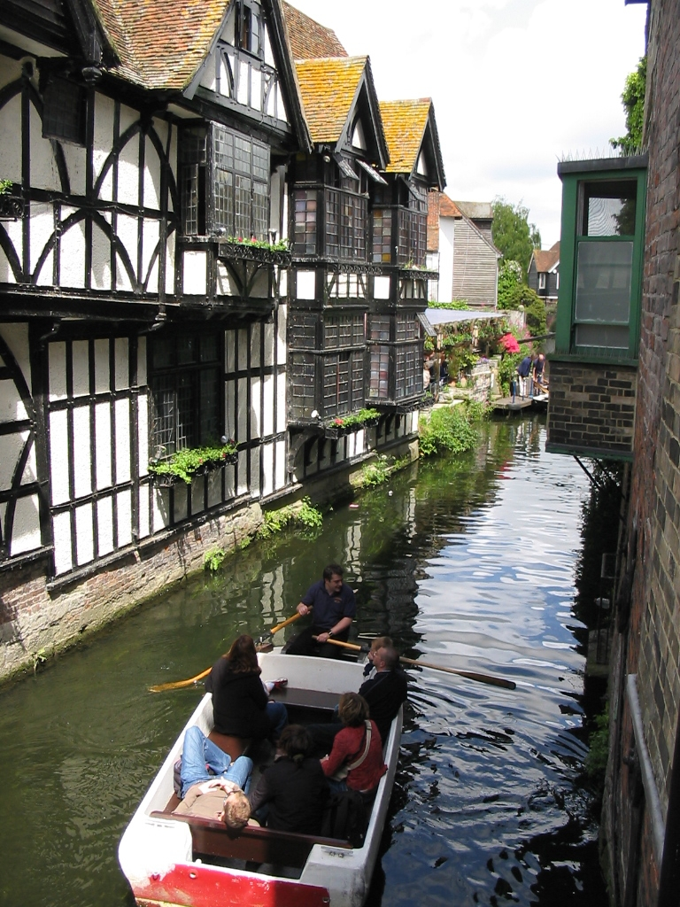 I took this picture myself on 30/05/05.